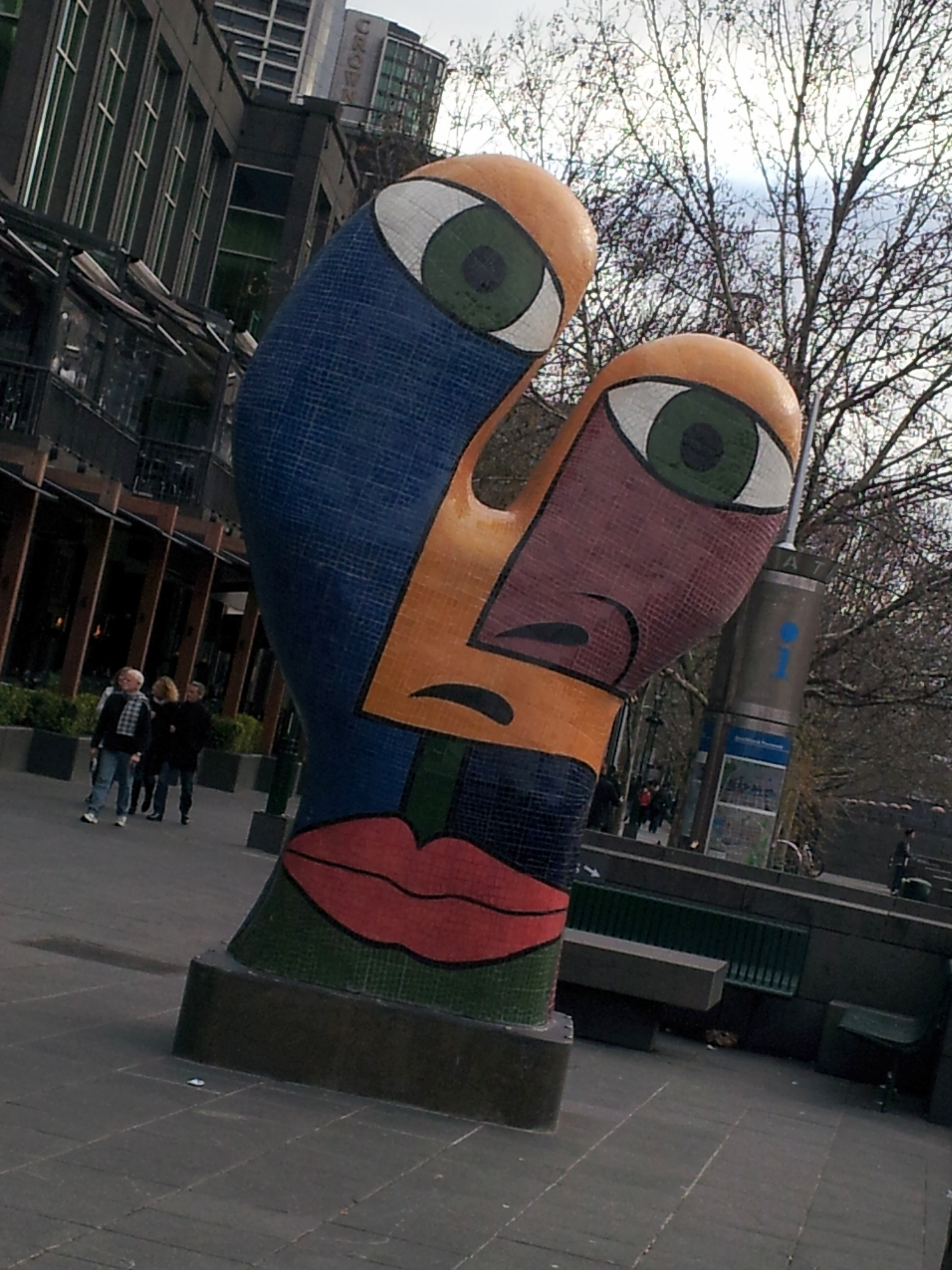 Sculpture "Ophelia" by Deborah Halpern at Southgate in Melbourne